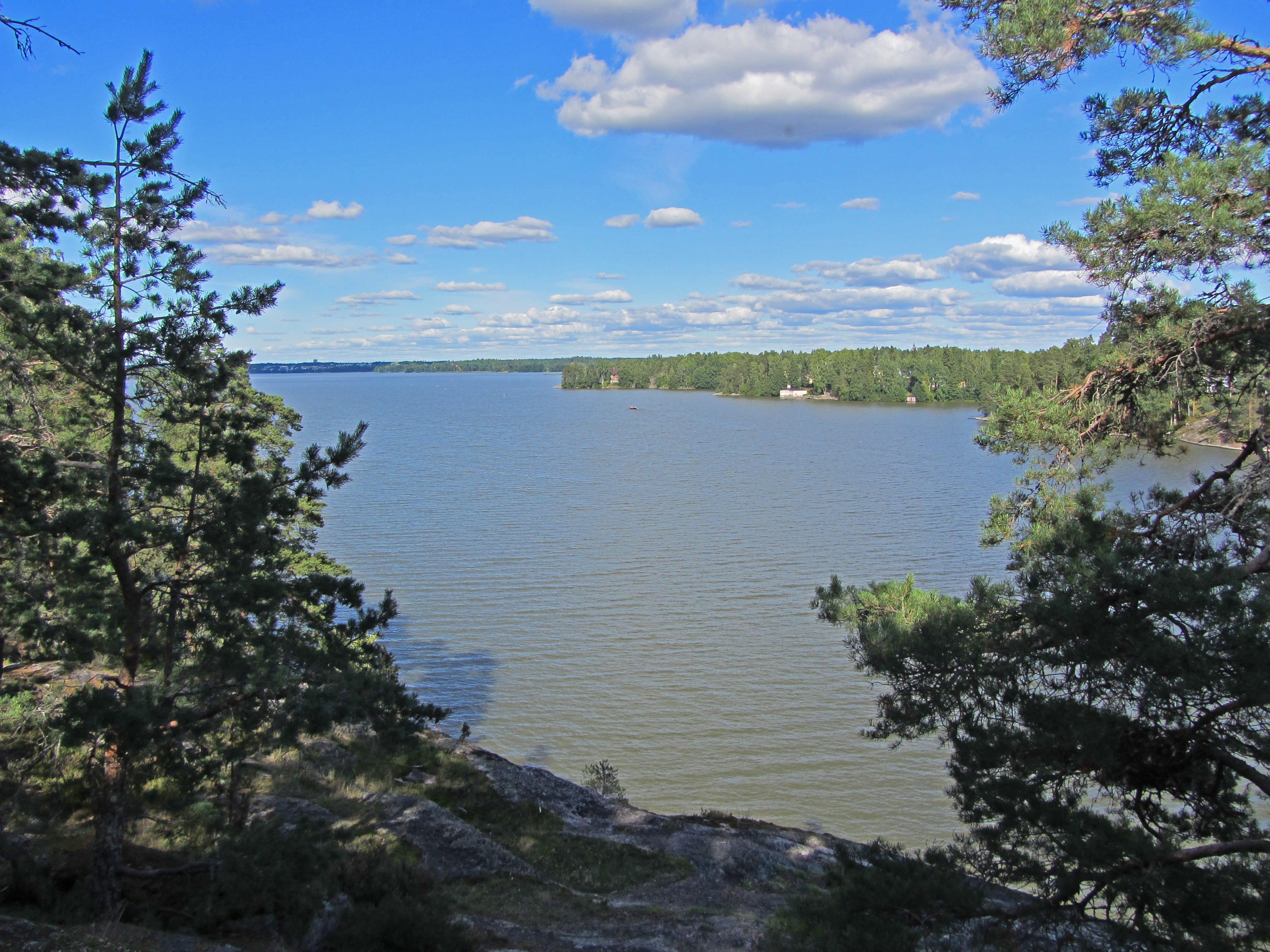 Sarvikallio is located on the west bank of the Lake Tuusulanjärvi.